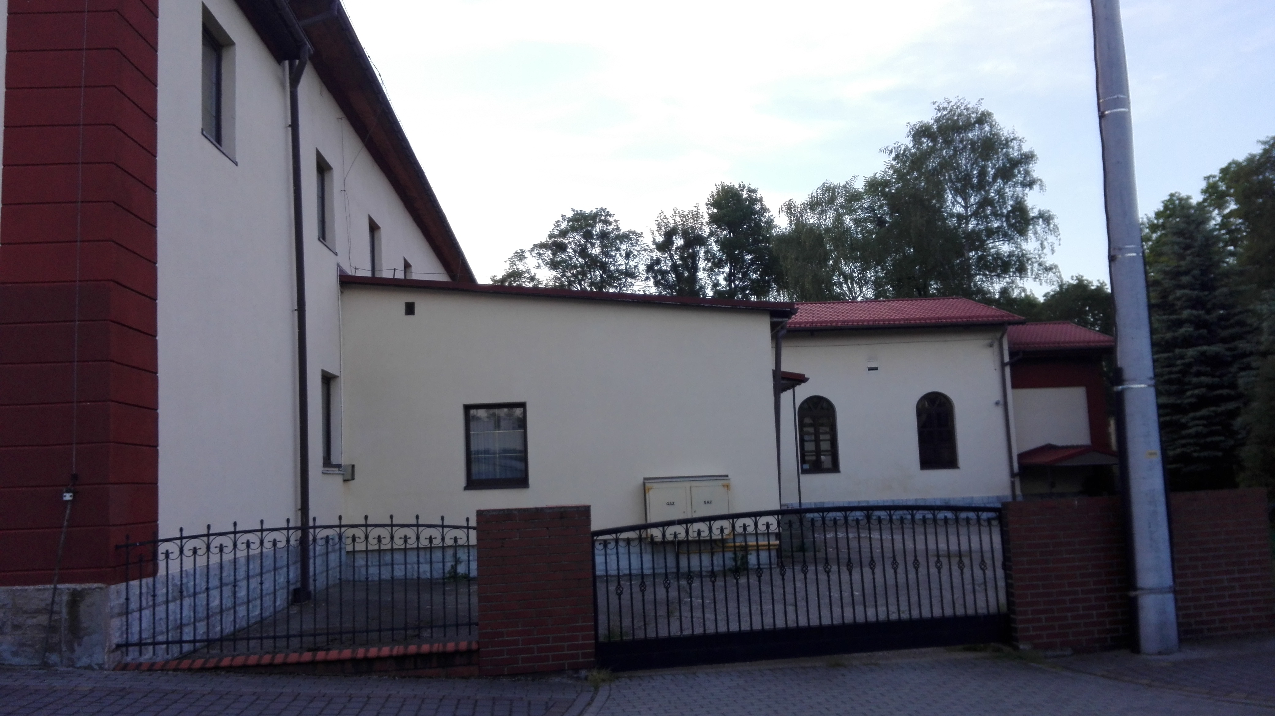 7 Hutnicza Street in Ustroń